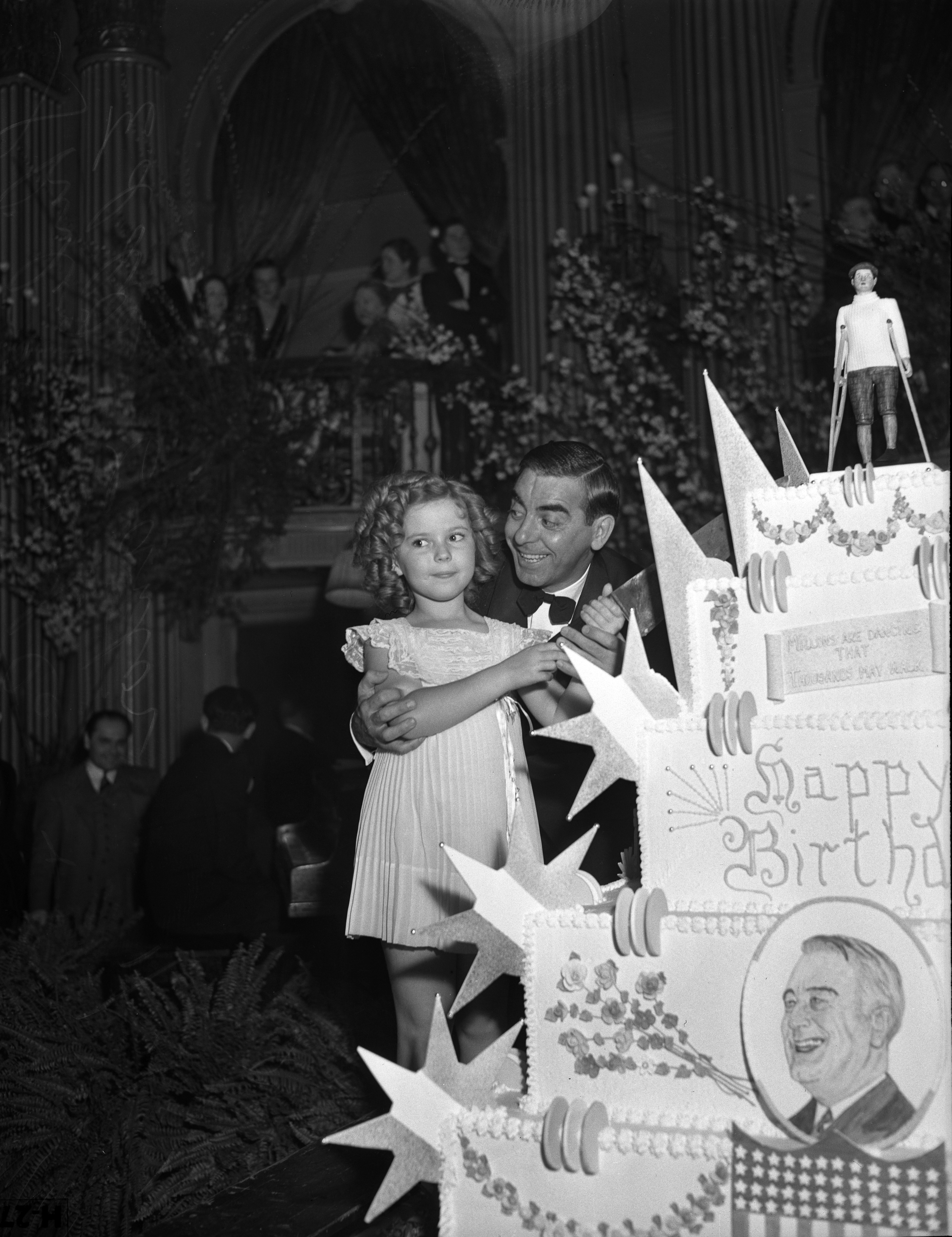 Shirley Temple and Eddie Cantor cutting President Franklin D. Roosevelt's birthday cake in Los Angeles, California, 1937